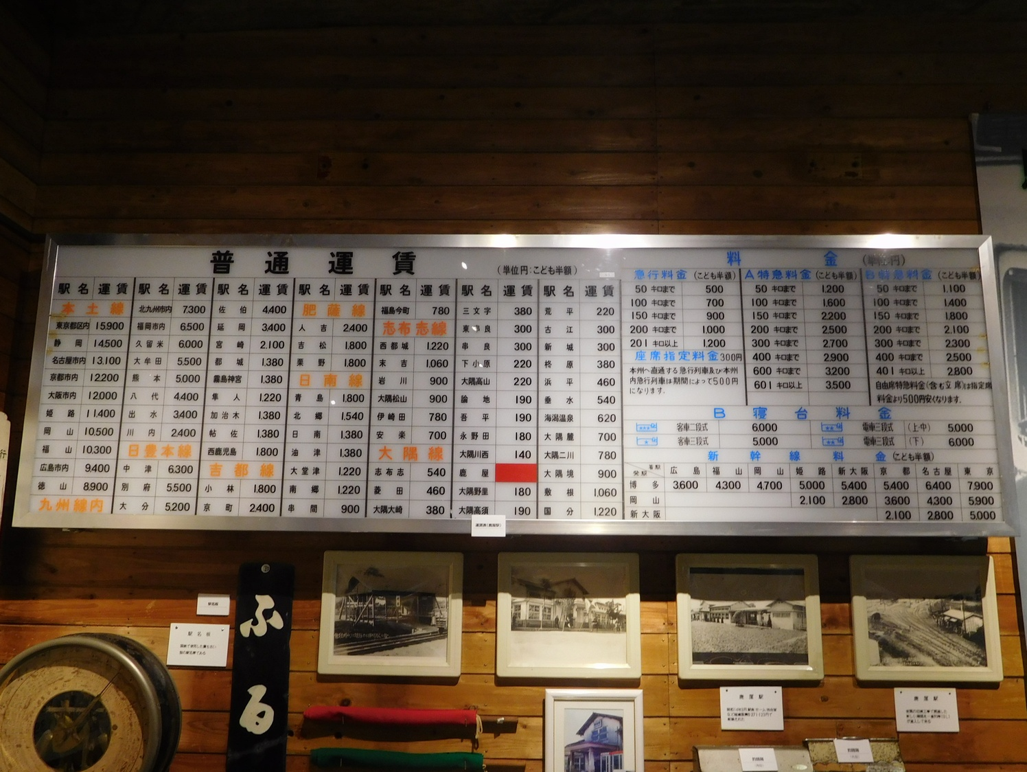 The Fare Table of JNR Kanoya Station (Disused) in Kagoshima Prefecture, Japan)